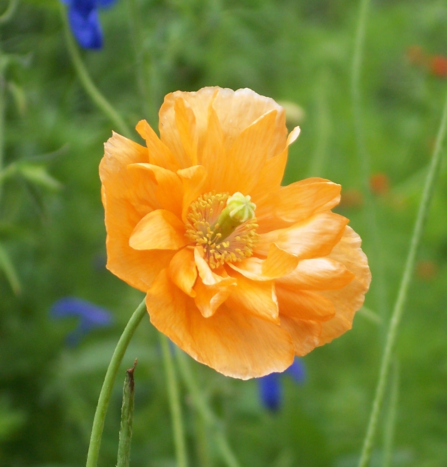 Papaver atlanticum 'Flore Pleno' from the Smithsonian gardens